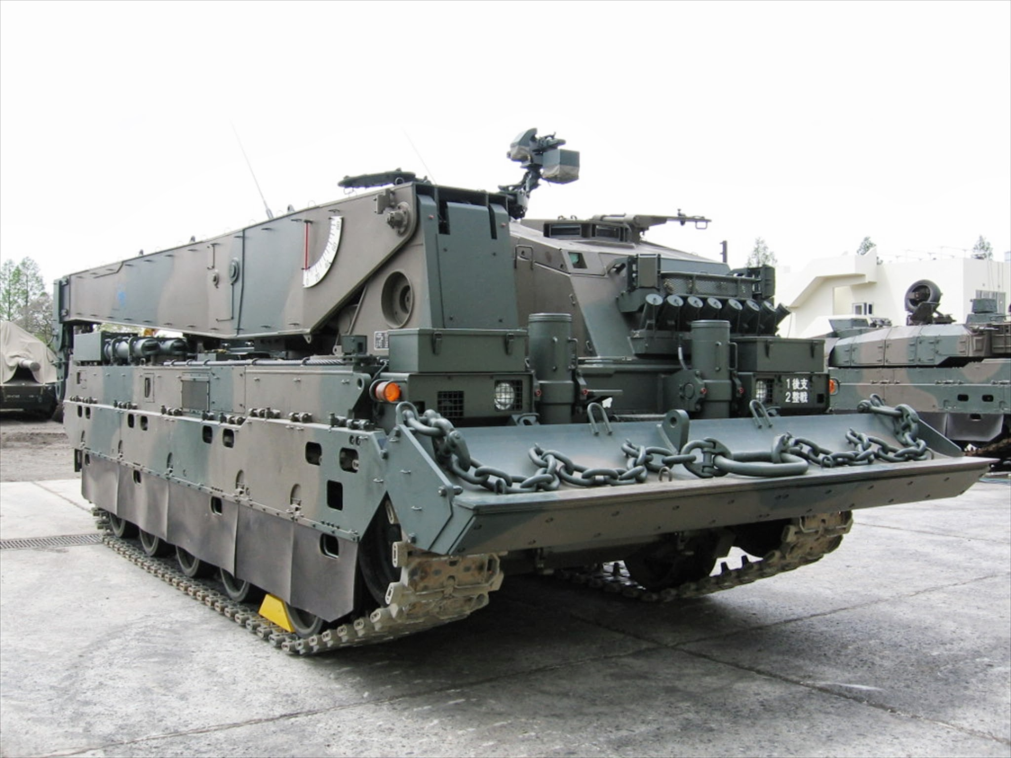 Title 11式戦車回収車IMG_0354.JPG Album 装備 １１式戦車回収車（第１後方支援連隊）